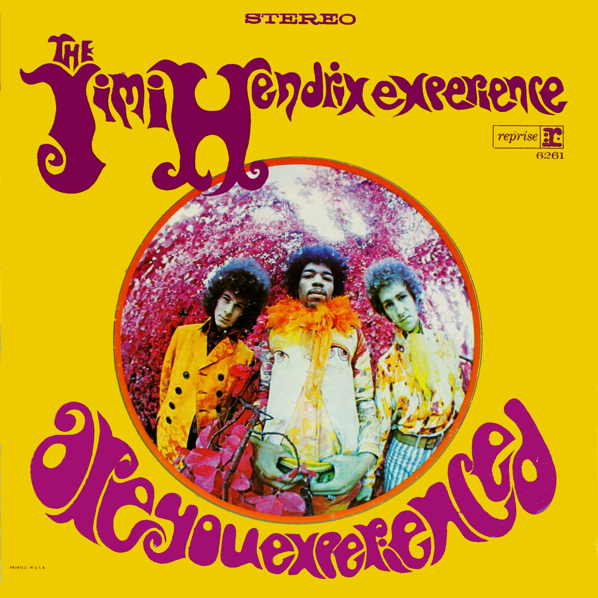 Album cover for the U.S. version of Are You Experienced by The Jimi Hendrix Experience. Reprise LP 6261.